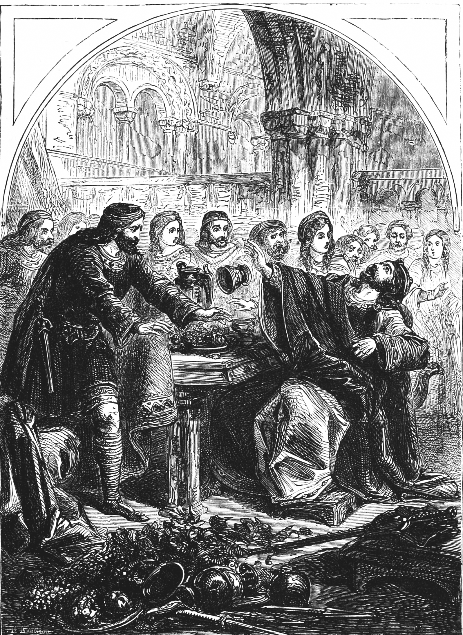 number = page #, image title = caption below image.